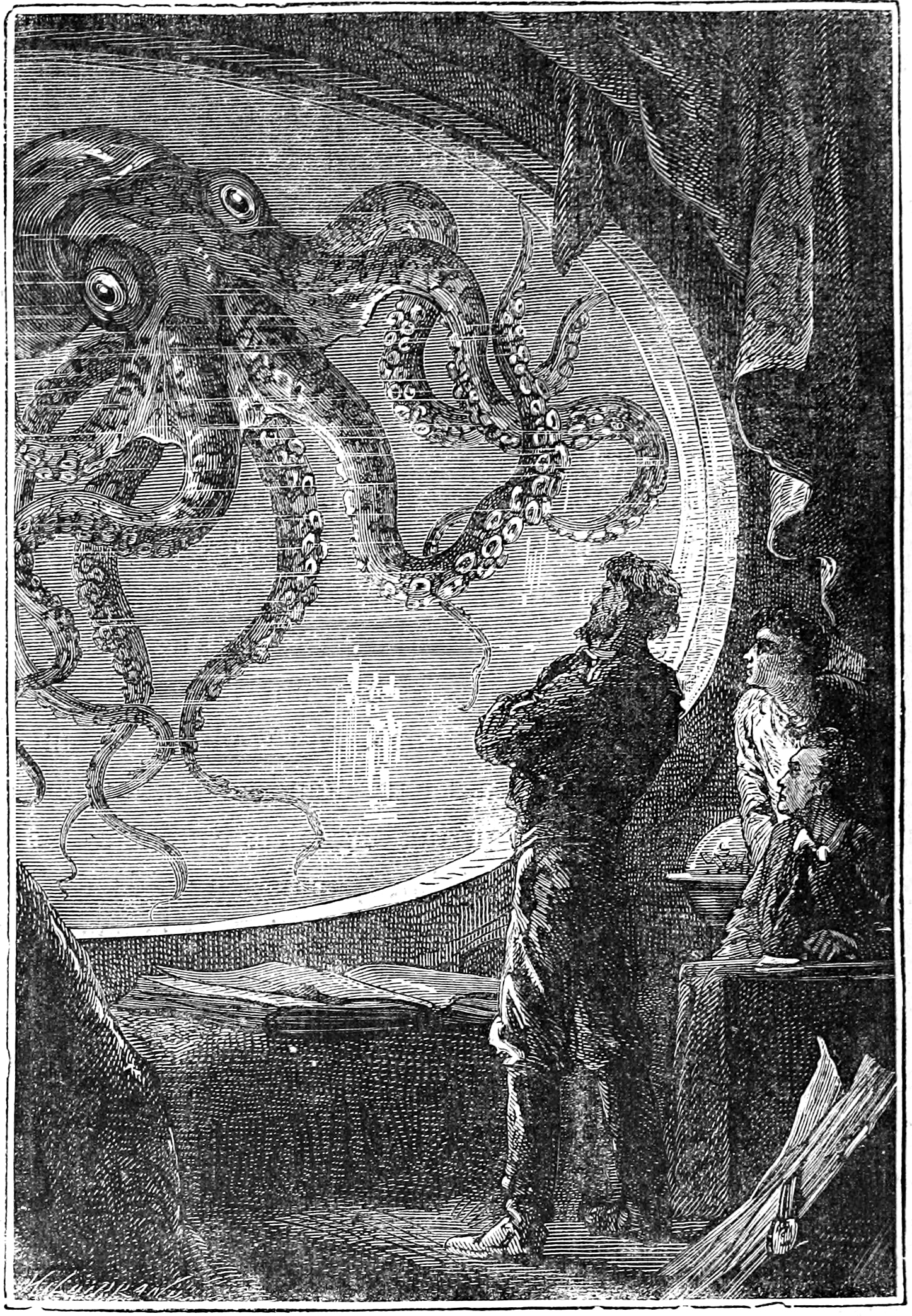 Engraving of Captain Nemo viewing a giant squid from a porthole of the Nautilus submarine, from 20000 Lieues Sous les Mers by Jules Verne.